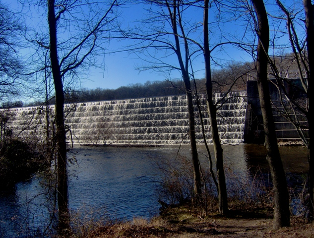 Dam of Farrington Lake in morning light. North Brunswick (NJ).